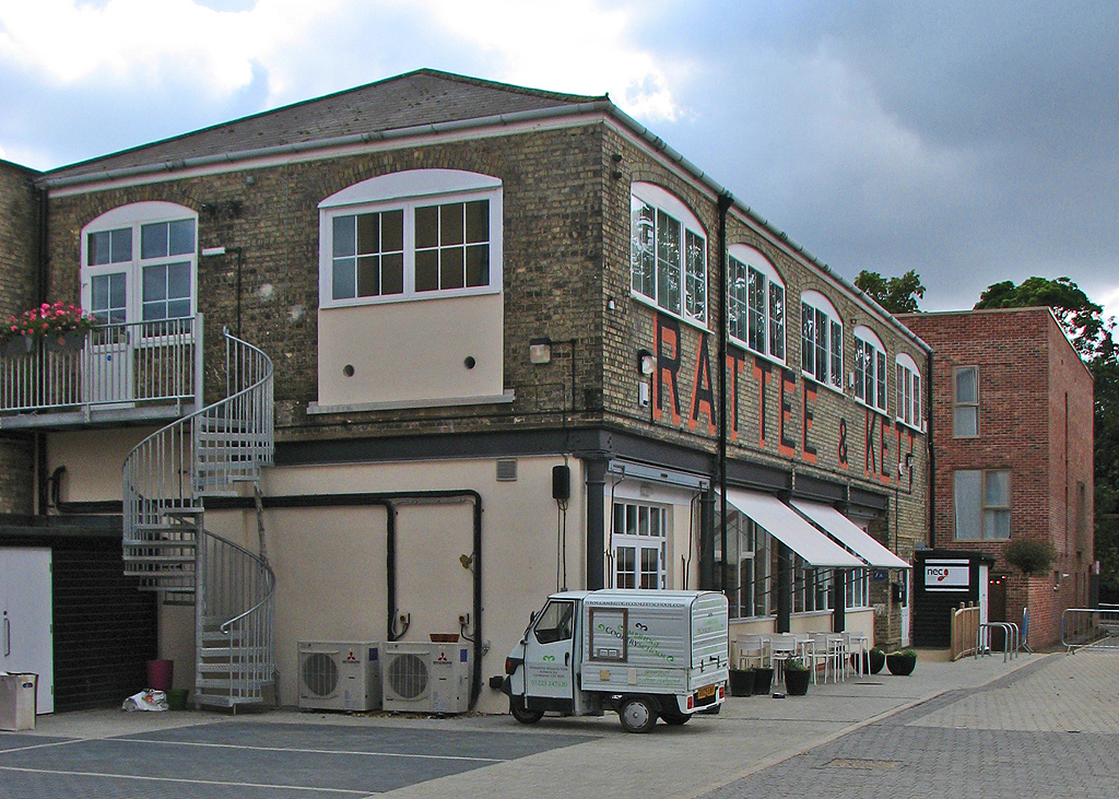 Cambridge Cookery School